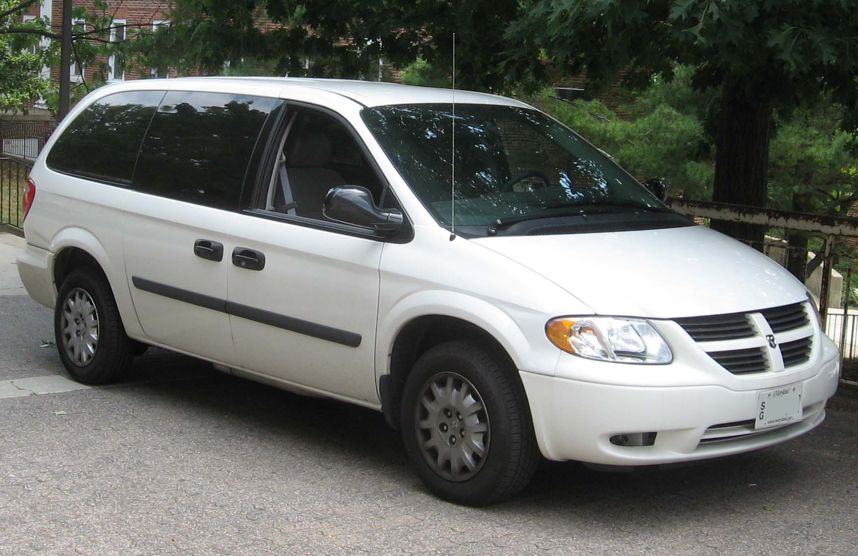 2005-2007 Dodge Caravan photographed in USA.